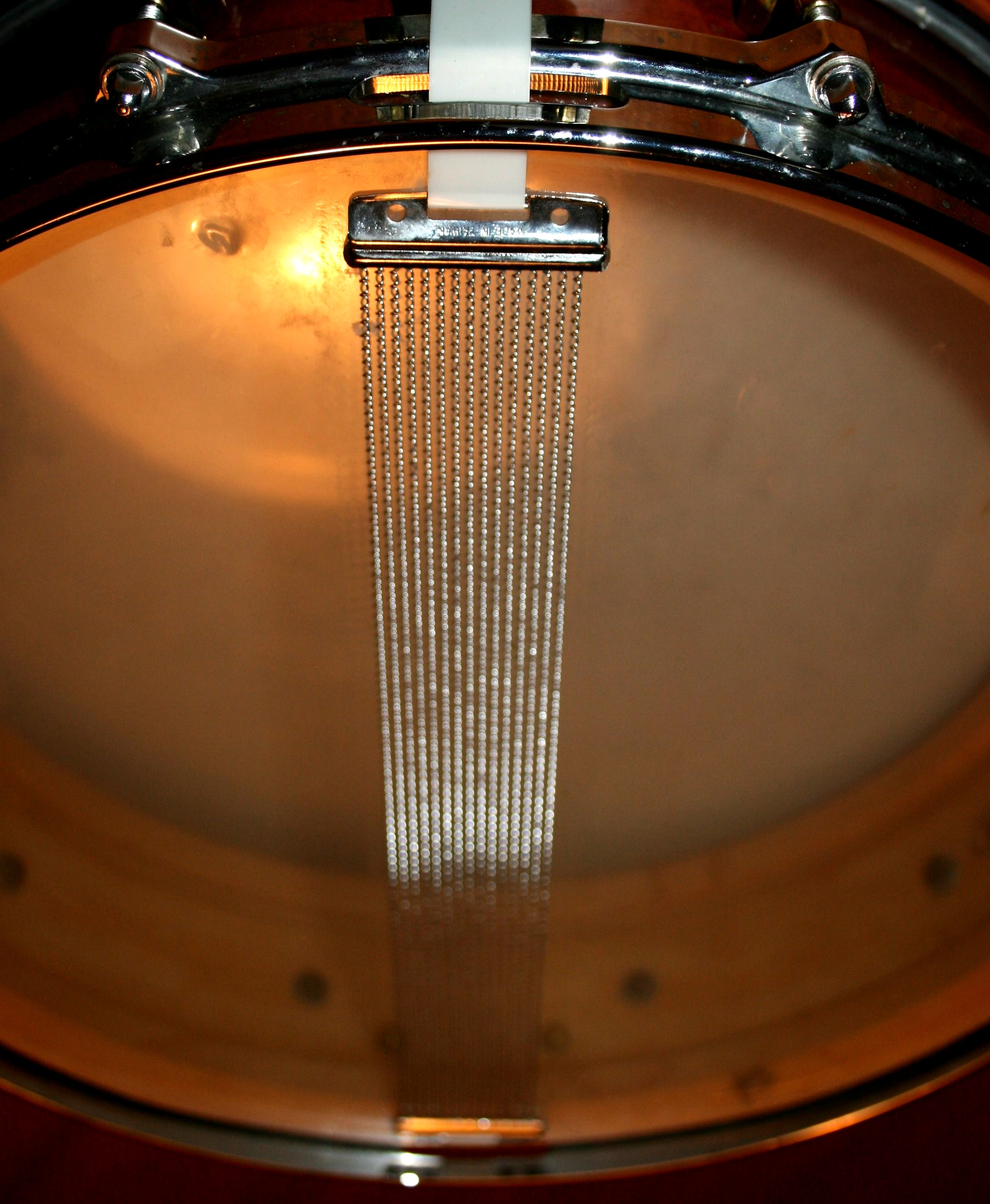 Snares under a snaredrum